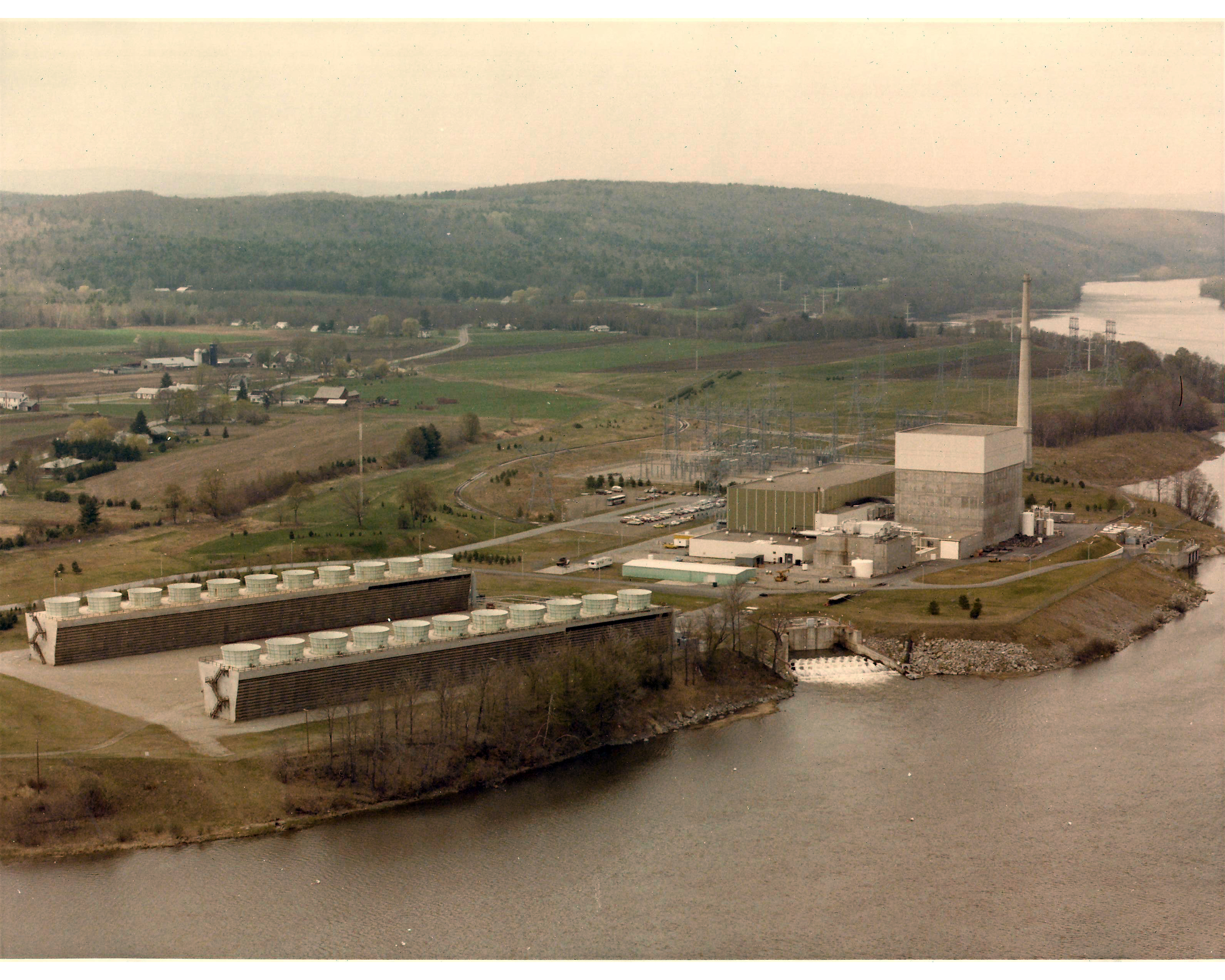 Vermont Yankee Nuclear Power Plant, Unit 1. The nuclear power plant is located in Vernon, VT (5 MI S of Brattleboro, VT) in Region I.